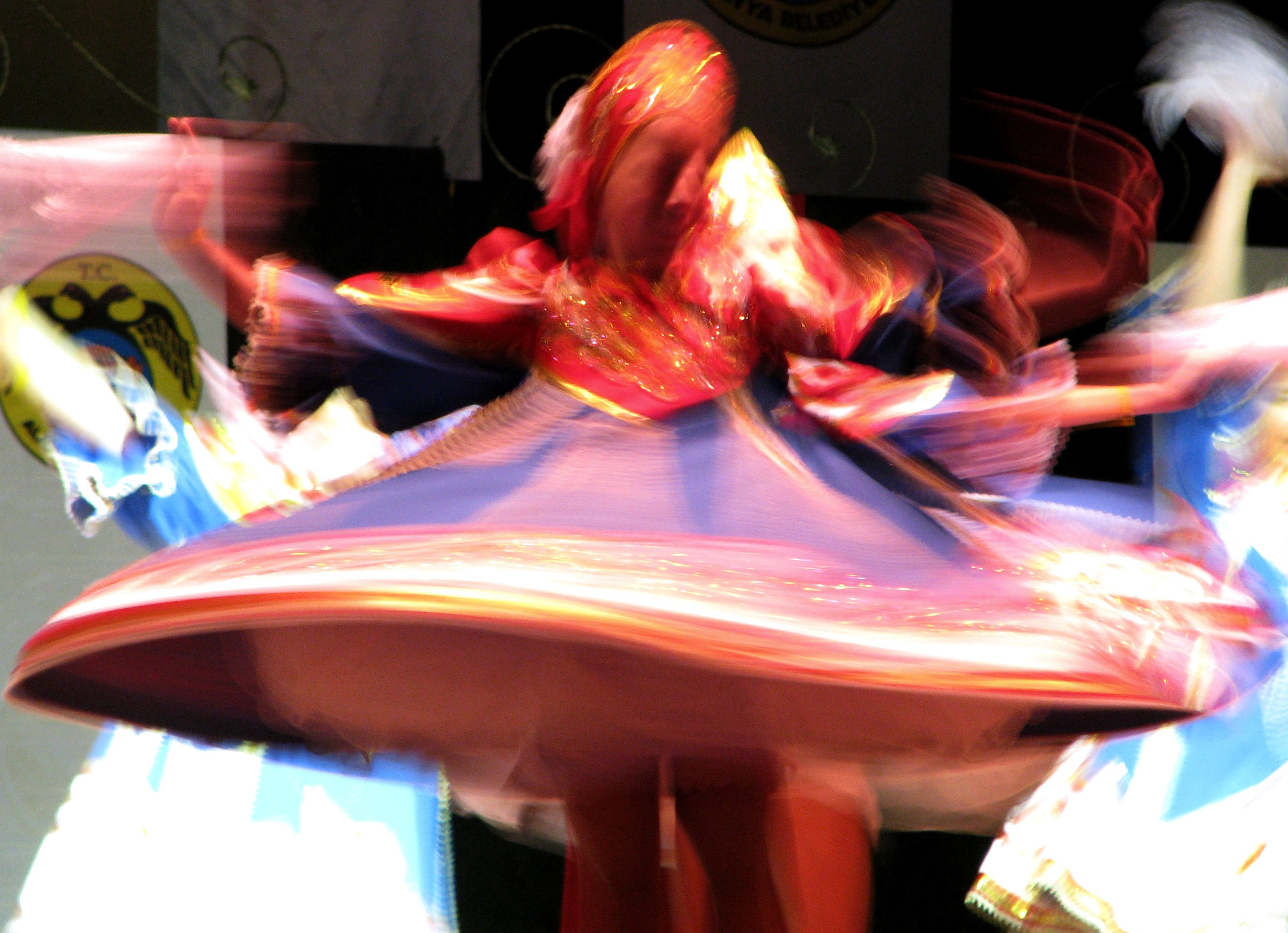 Russian States 5. Talisman Children Fest, Alanya, Turkey